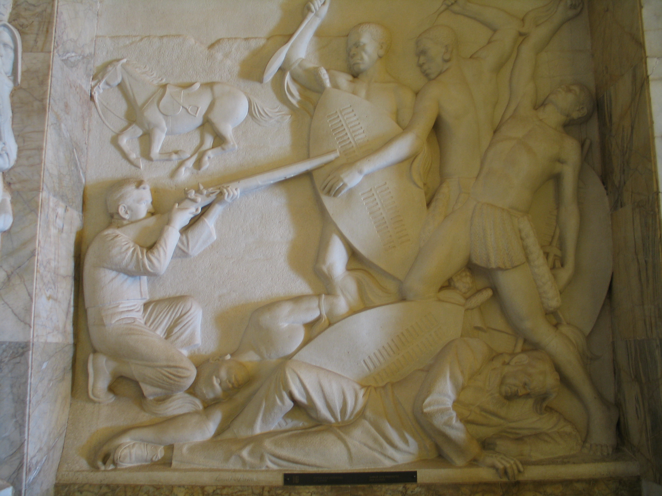 Frieze in the hall of heroes in the Voortrekker Monument, Pretoria. An incident of the Battle of Italeni on April 6, 1838 is portrayed. Dirkie Uys defends his wounded father, Piet Uys, till overpowered by the Zulu impi.[1]